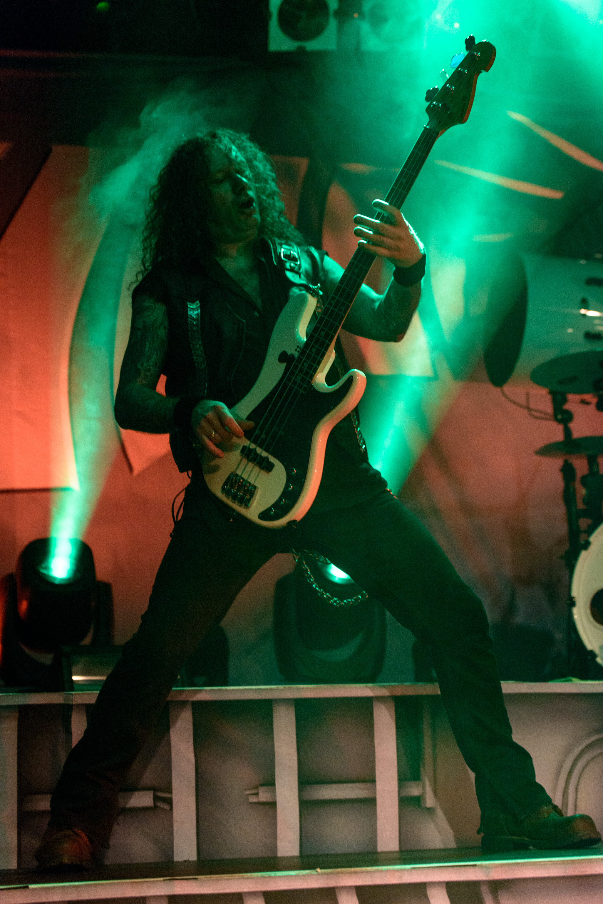 Helloween Live @ Backstage Werk, Munich